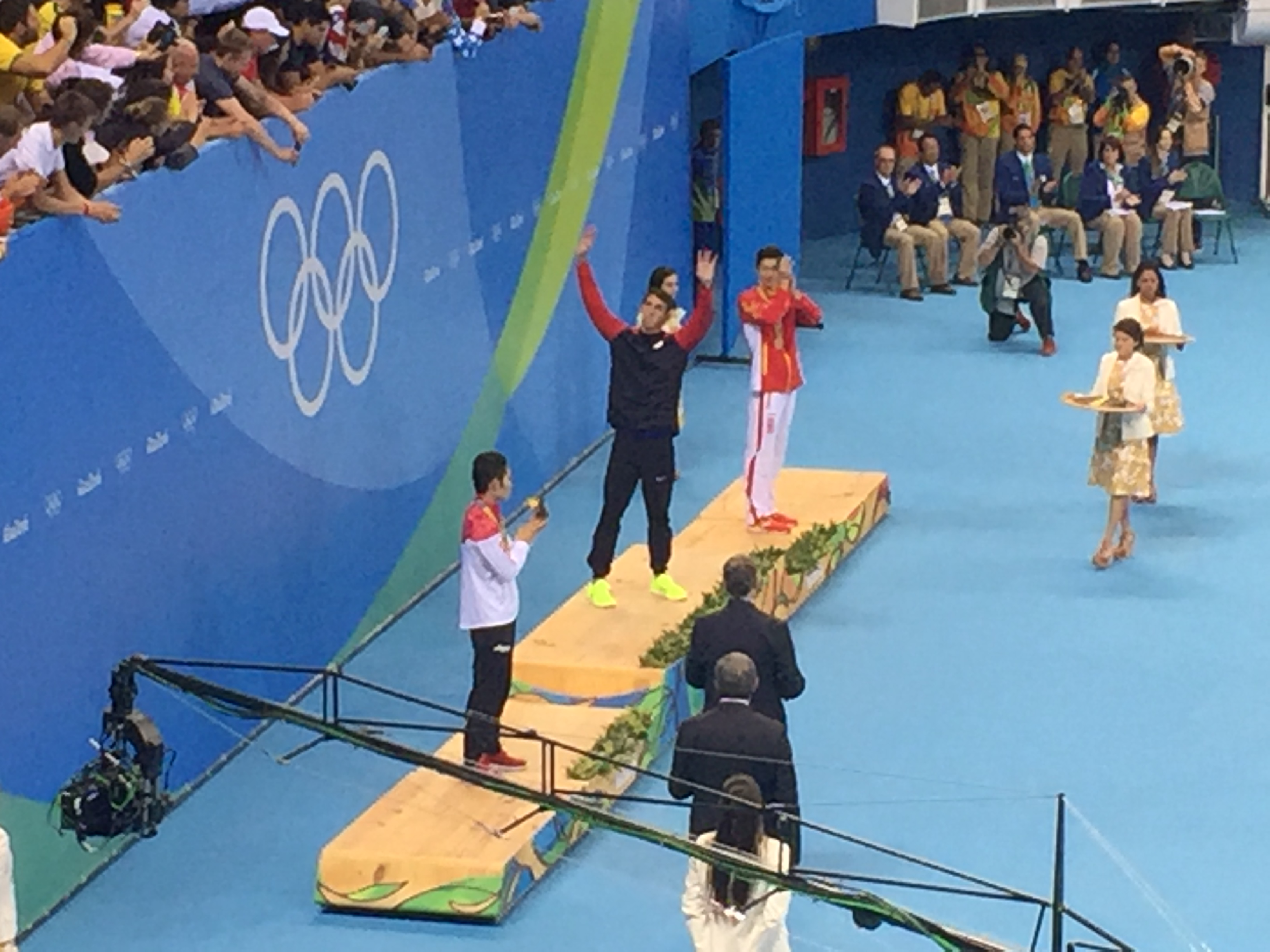 Rio 2016 Summer Olympics